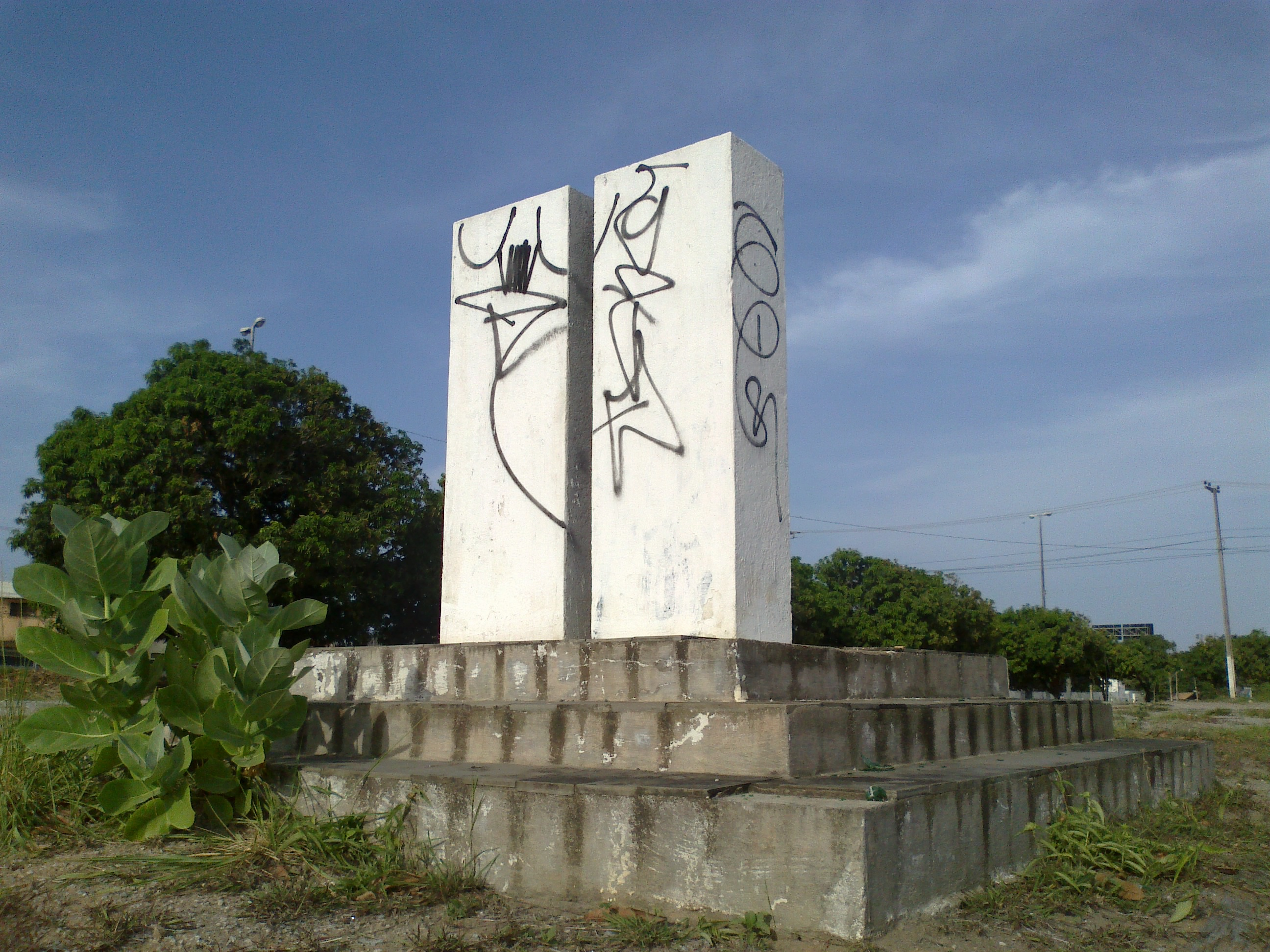 Apparently a monument to the opening of the BR-222 highway in Caucaia, Brazil.